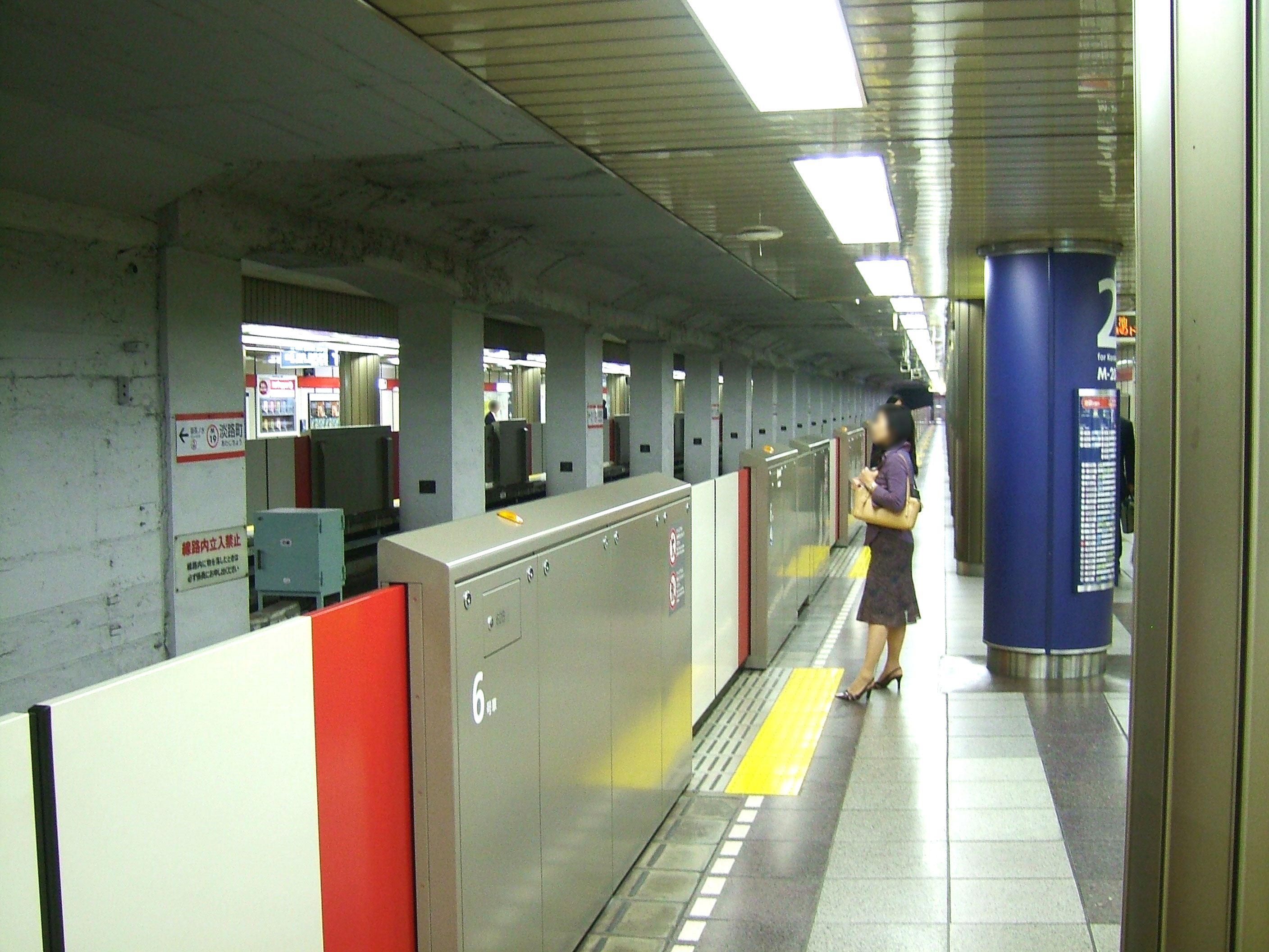 The platforms at Awajichō Station on the Tokyo Metro Marunouchi Line in Chiyoda city, Tokyo, Japan